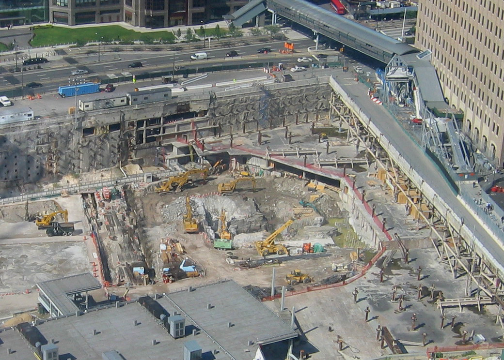 Construction of the Freedom Tower, as of October 7, 2006. Photo by User:Aude